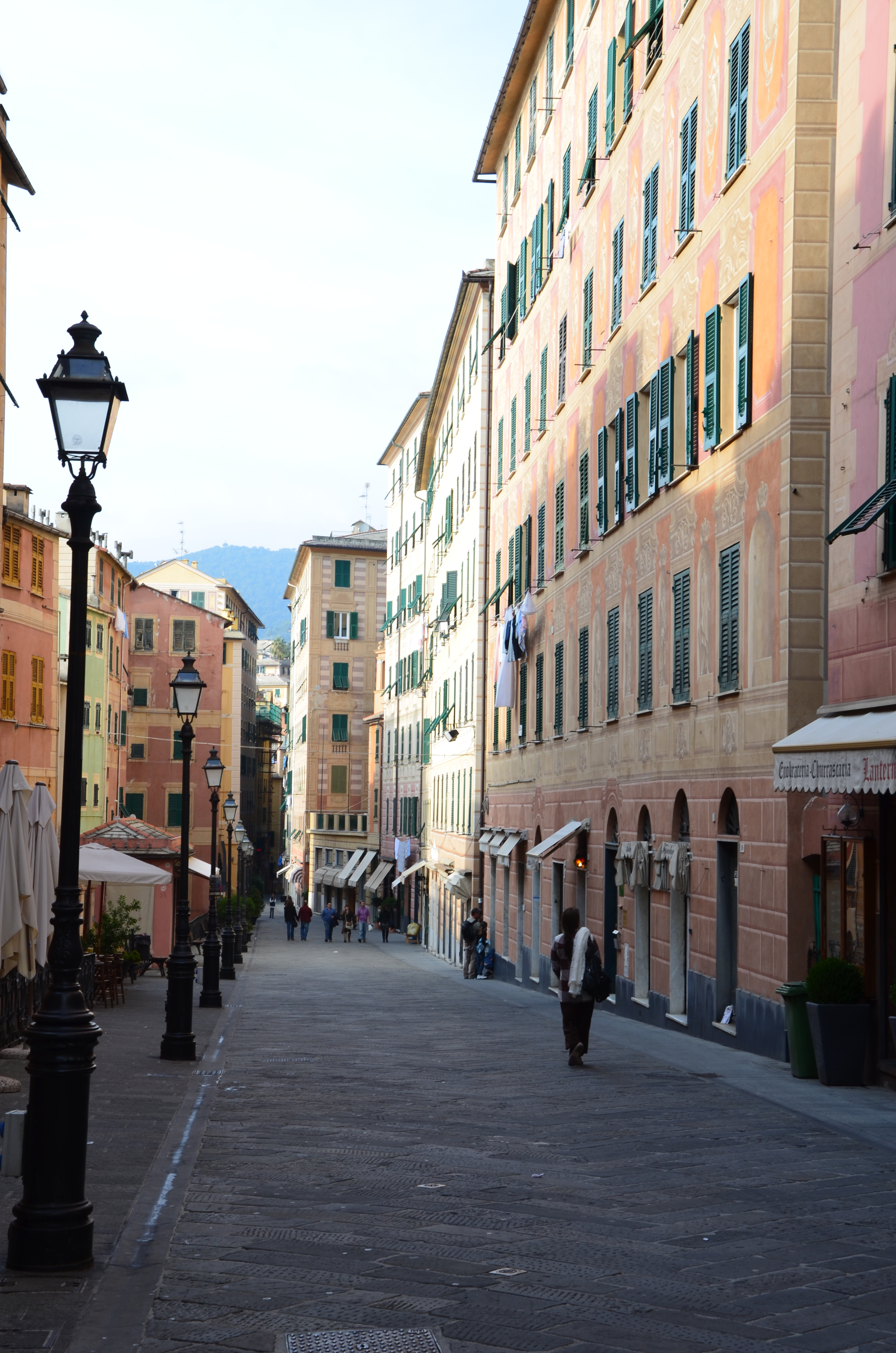 Camogli, the walk